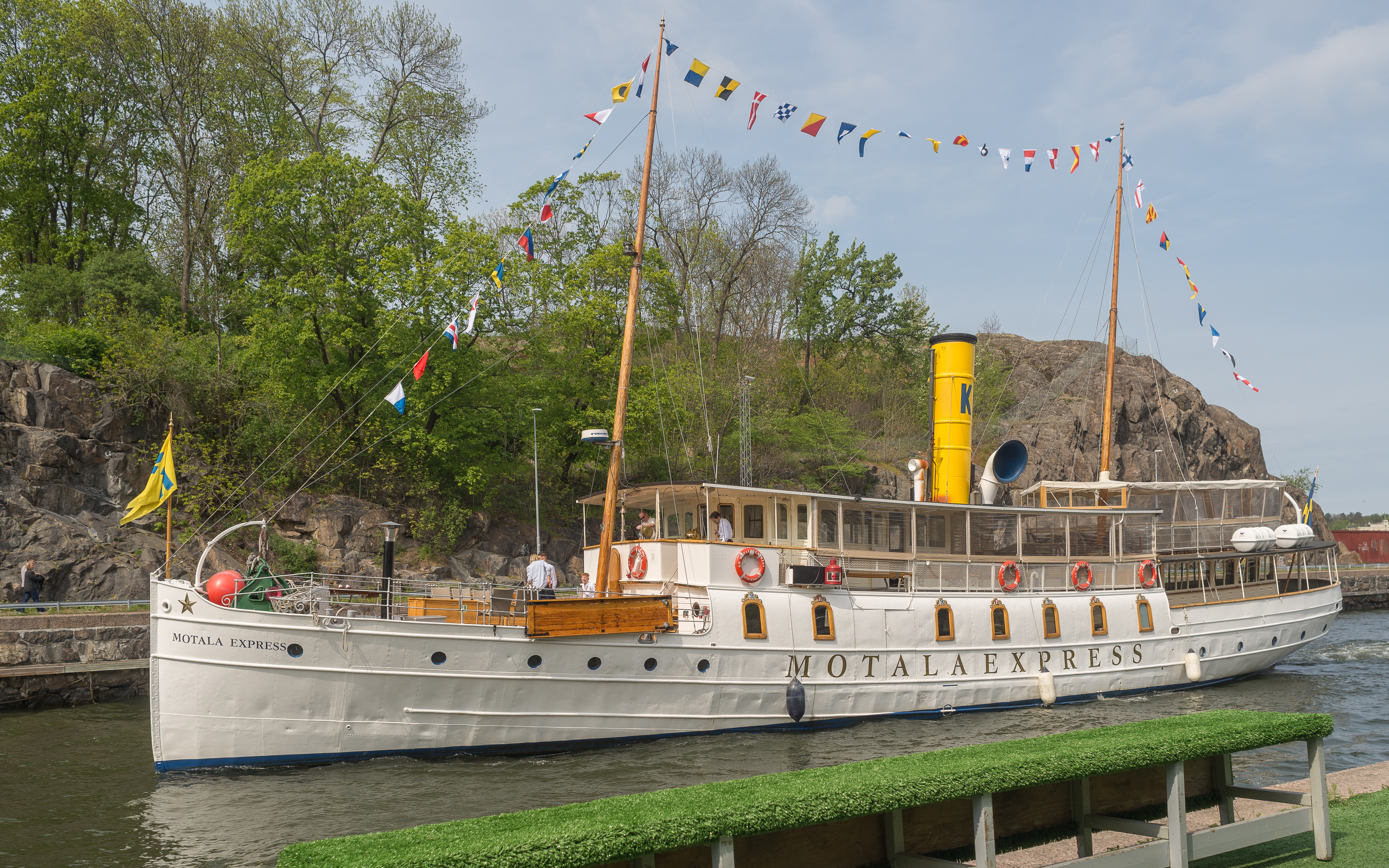 The historic steamship Motala Express in Hammarbykanalen, Stockholm.